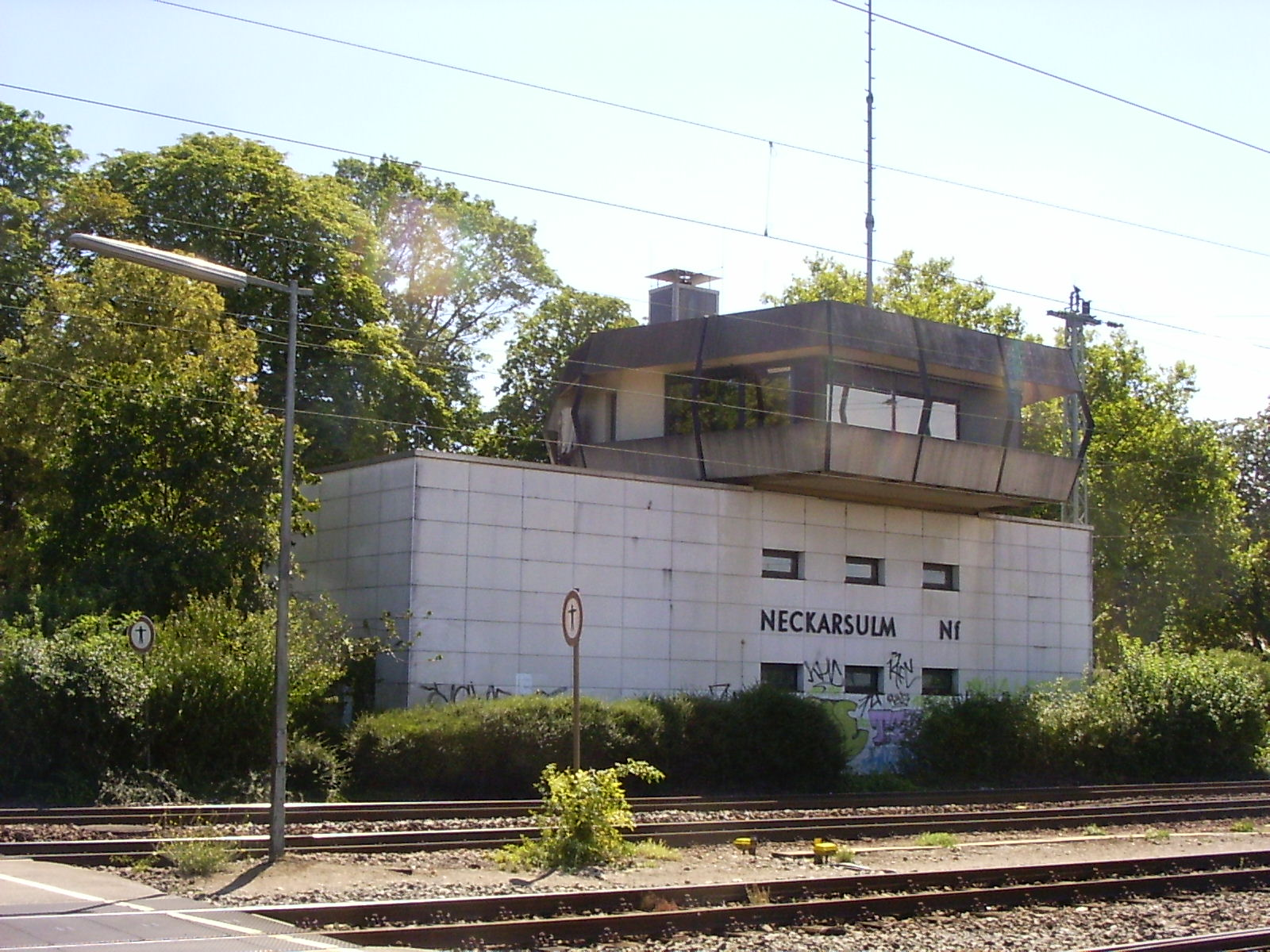 Neckarsulm signal box